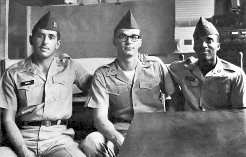 This is the cover image on a pamphlet issued by the Fort Hood Three Defense Committee in July 1966